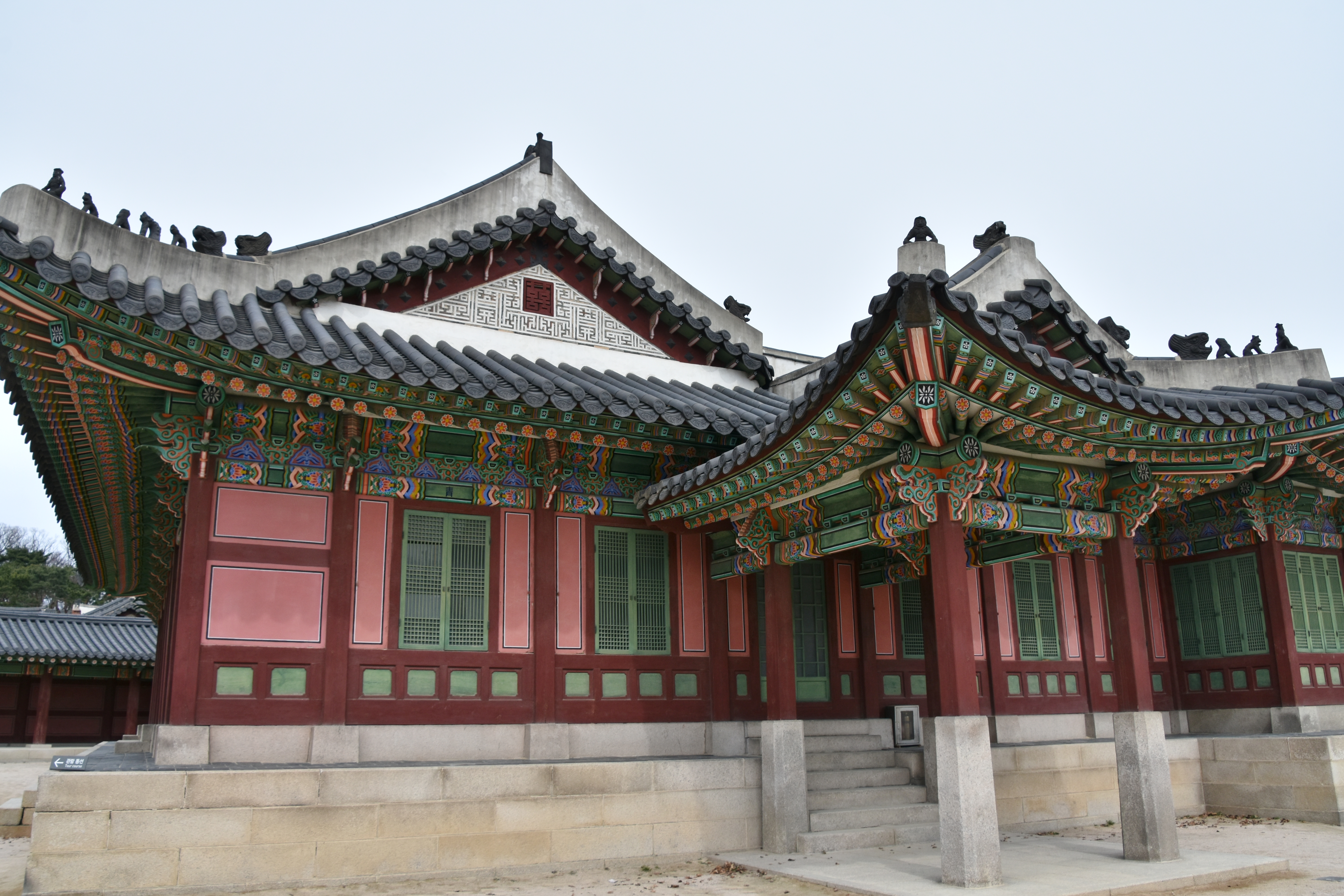 Changdeokgung Palace, Seoul, constructd in 1405 (117)